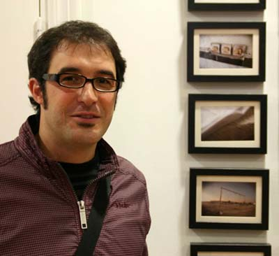 Retrato del fotógrafo Iñigo Beristain